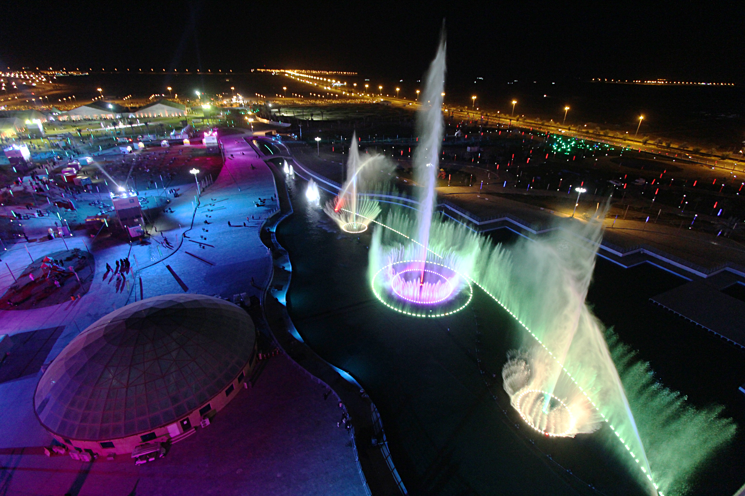 أكبر نافورة تفاعلية في العالم تقع في منتزه الملك عبد الله البيئي بالأحساء